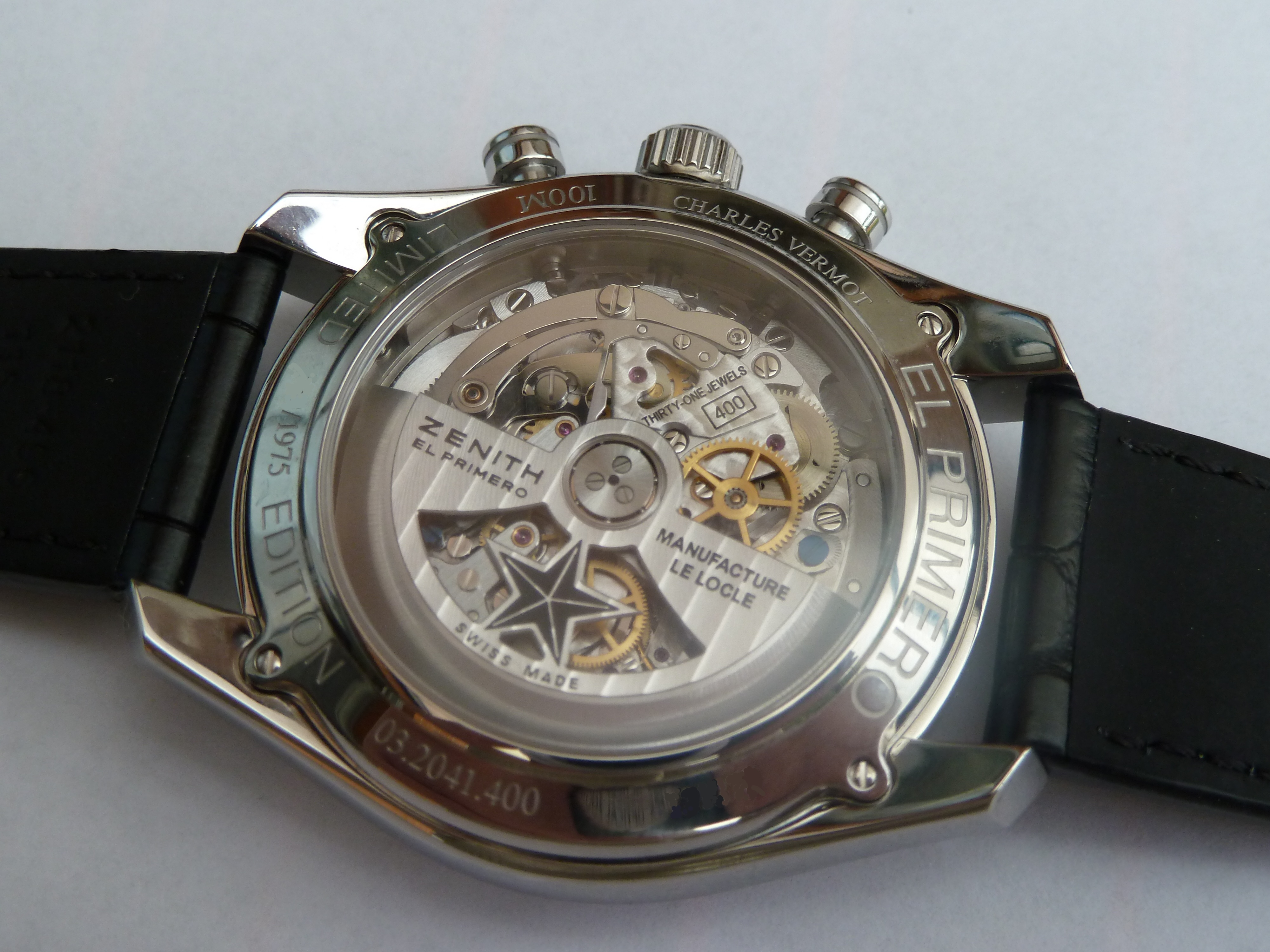 Zenith El Primero 36000 VpH Tribute to Charles Vermot transprent caseback